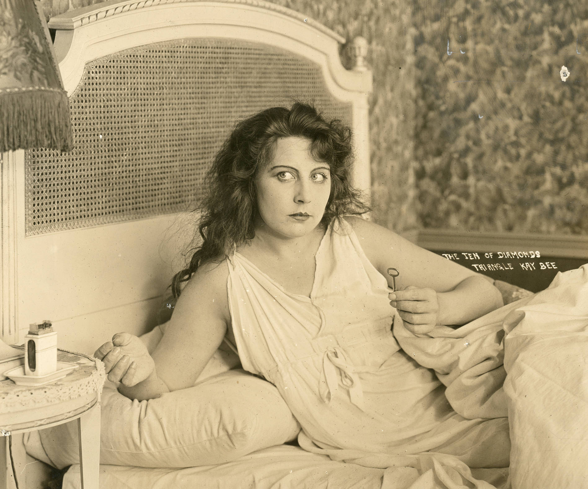 Dorothy Dalton in the silent film Ten of Diamonds. Subjects: actresses, motion pictures